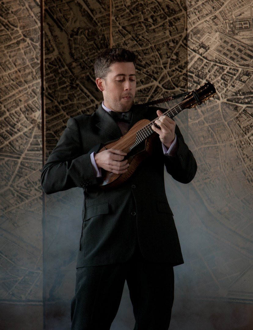 Cropped version of an image on Wikimedia commons, showing mandolinist Joseph Brent and his custom made 10-string mandolin, named Kumi.